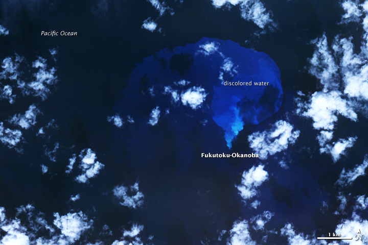 The submarine volcano Fukutoku-Okanoba erupted in early February, releasing ash and steam plumes, and discoloring nearby ocean water. On February 9, 2010, the Advanced Spaceborne Thermal Emission and Reflection Radiometer (ASTER) on NASA’s Terra satellite captured this false-color image. Water colored by the underwater plume appears electric blue in this image, in contrast to the surrounding navy blue water. The discolored water forms a rough V shape north of the volcanic summit. The summit of Fukutoku-Okanoba lies 14 meters (46 feet) below sea level. It is part of the Volcano Islands in the Ogasawara Islands. The volcano is approximately 5 kilometers (3 miles) northeast of the island of Minami-Iwo-jima and about 1,000 kilometers (600 miles) south of the main Japanese archipelago.